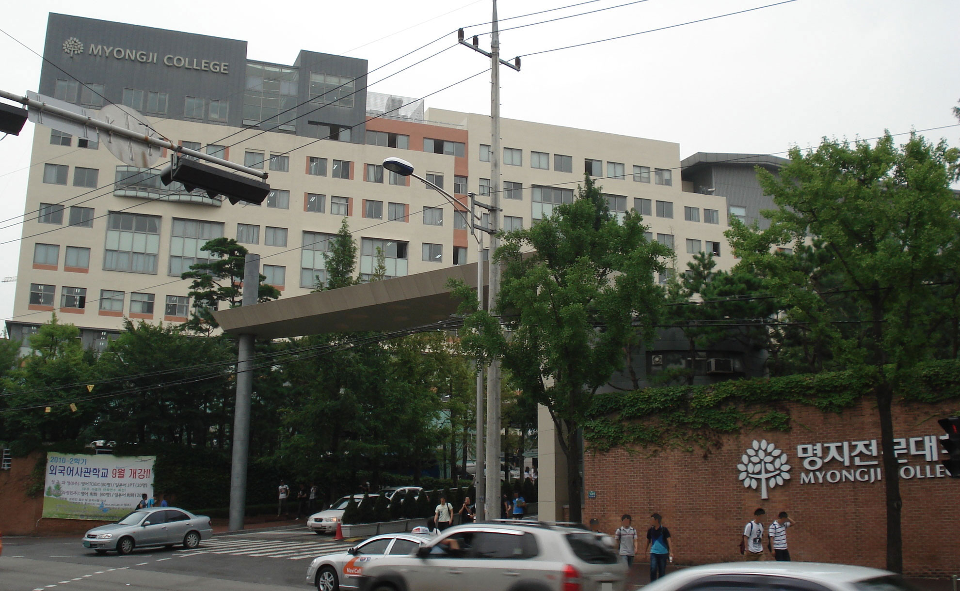 Myongji College